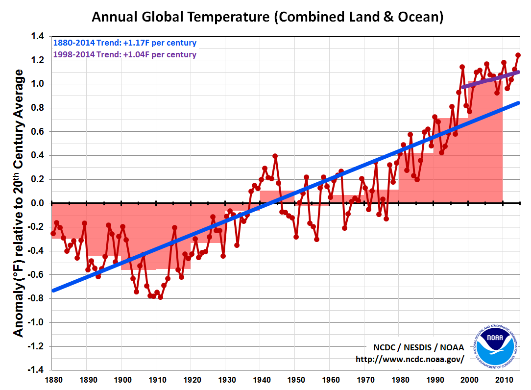 Globale Erdoberflächentemperatur: langfristige Trend und Trend seit 1998